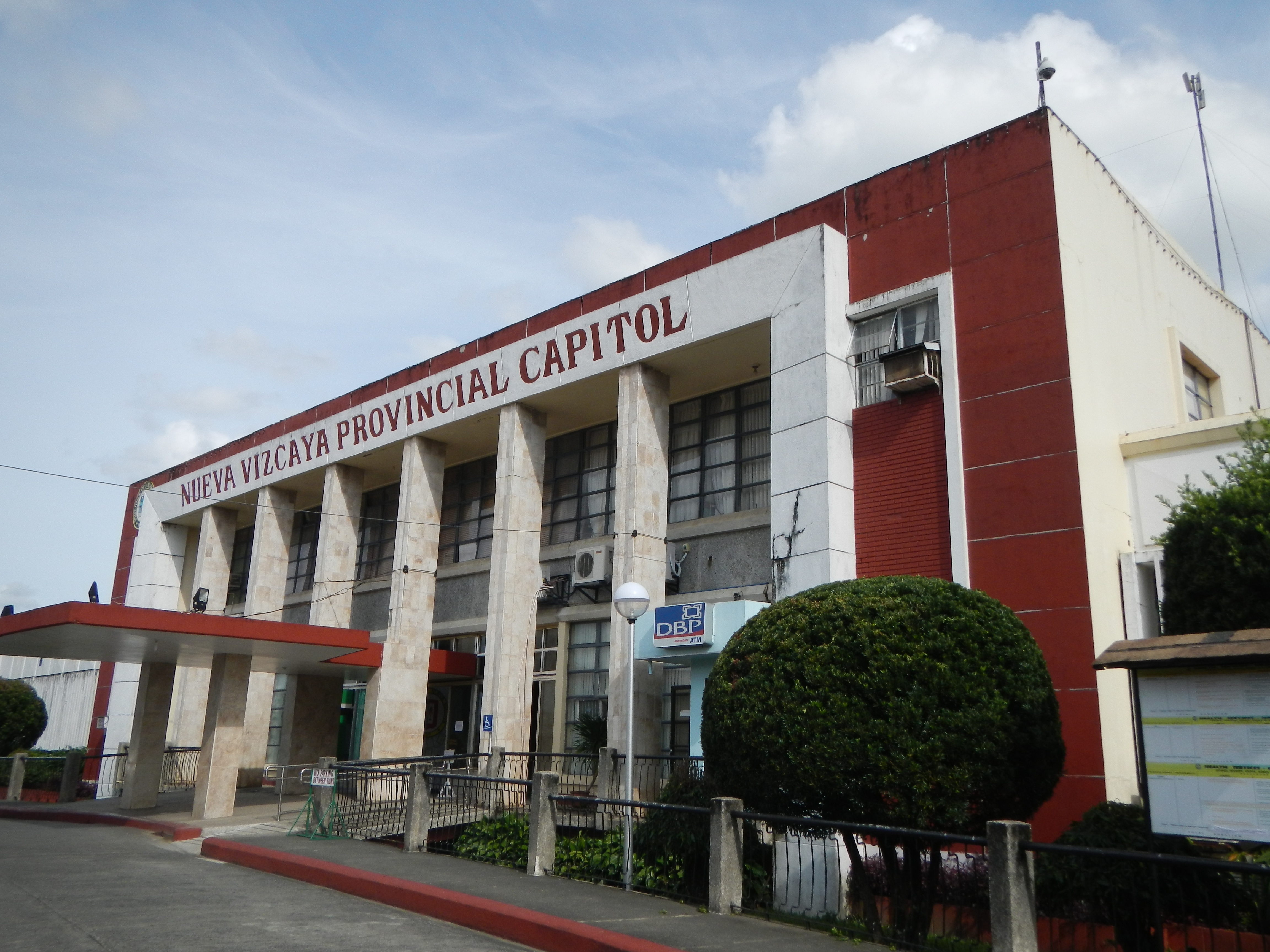 Upload Wizard photos of -- Bayombong, Nueva Vizcaya[1] -- Nueva Vizcaya Provincial Capitol Complex (by its builder, Governor Patricio G. Dumlao, along the national road, housing all the provincial government offices, the capitol building, an architectural ingenuity with an exotic park with exotic plant species, concrete benches and sidewalks lighted with giant lamps, a man-made lagoon, colorful mini-boats operated by handicapables, 5-hectare Capitol grounds, the Luneta of the North, the murals depicting the history of the diverse cultures of the province, a replica of the Salinas Salt Springs[2];Bayombong- situated along the banks of the Magat River and Palali Mountains, Bangle and Liri Mountains[3] Gov Padilla bares plan for Nueva Vizcaya tourism dev'[4] [5] [6] [7] [8] [9][10]).